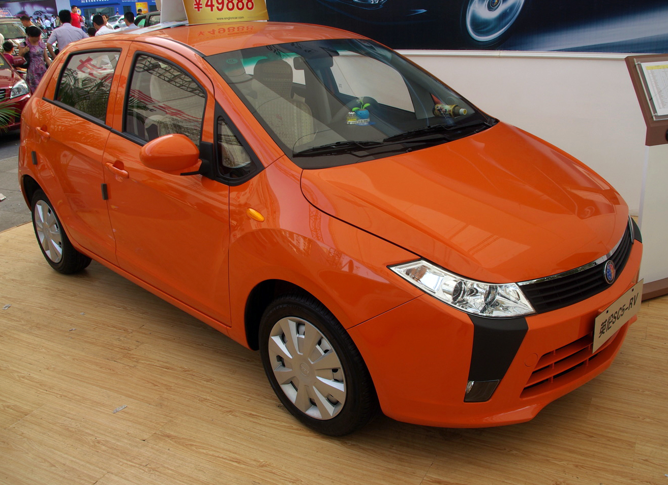 (Geely) Shanghai Englon SC5-RV at Chongqing Auto, July 2011